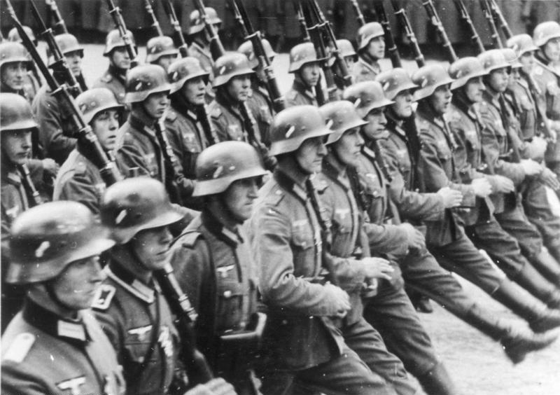 Warsaw during World War II